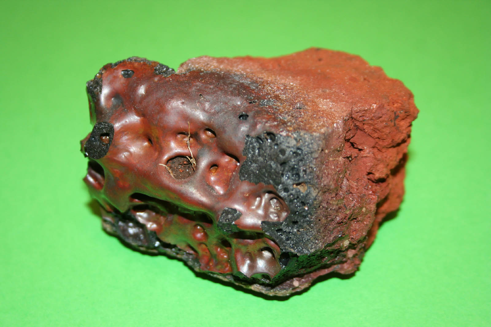 Piece of vitrified brick found in Brick-Kiln Covert This small piece of vitrified brick was found by me in a wood named Brick-Kiln Covert on Ordnance Survey maps. As I have driven past I have often wondered what evidence of brick making could be found in its interior. The Kedleston Estate have done some ground clearance and thinning in the wood recently, so after asking an estate farmer I went to take a look. I found no evidence of any kiln foundations, but the wood is riddled with boggy ponds which may have been where clay had been taken from shallow workings, and puddled for bricks on the spot. There was little visible evidence of any brick waste, but I found just this one nice piece of well vitrified waste brick that has probably formed part of a kiln and been fired many times. I have assumed that this was the source of bricks made in the 1700s when Kedleston Hall was built, but on this point I have not sought the evidence yet.